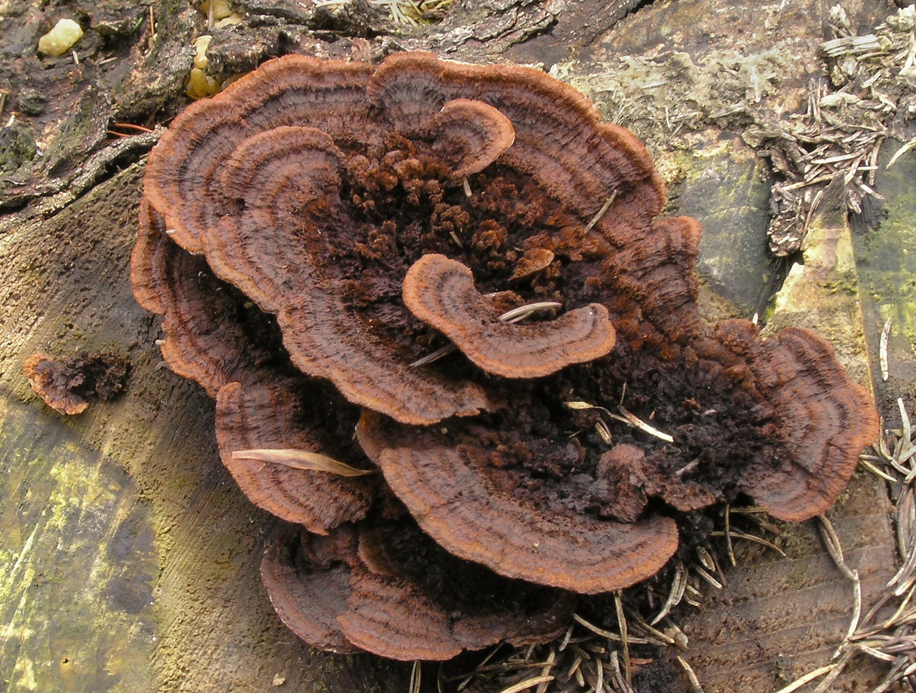 Conifer Mazegill (Gloeophyllum sepiarium)